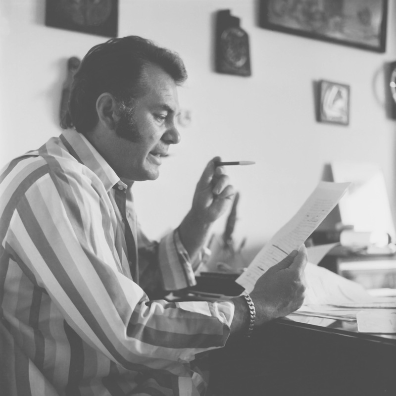 Moldovan film director Emil Loteanu in his apartment in Chisinau (1972).